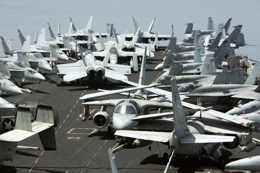 U.S. naval aircraft of Carrier Air Wing 9 (CVW-9) are seen parked on the flight deck of the aircraft carrier USS John C. Stennis, Friday, 11 May 2007.